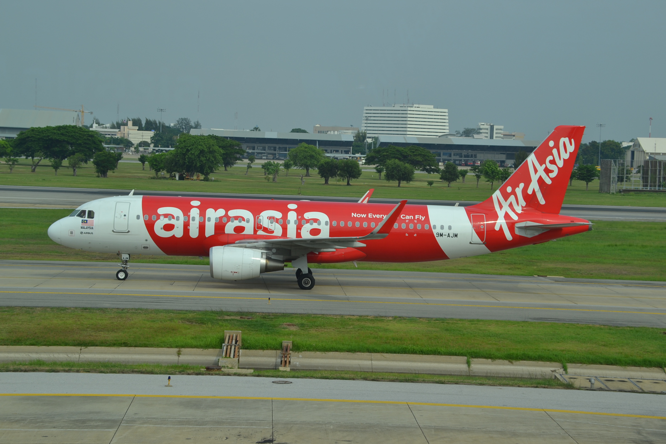 Airbus A320(SL) of AirAsia at Bangkok-DMK, Thailand, 23/04/15.